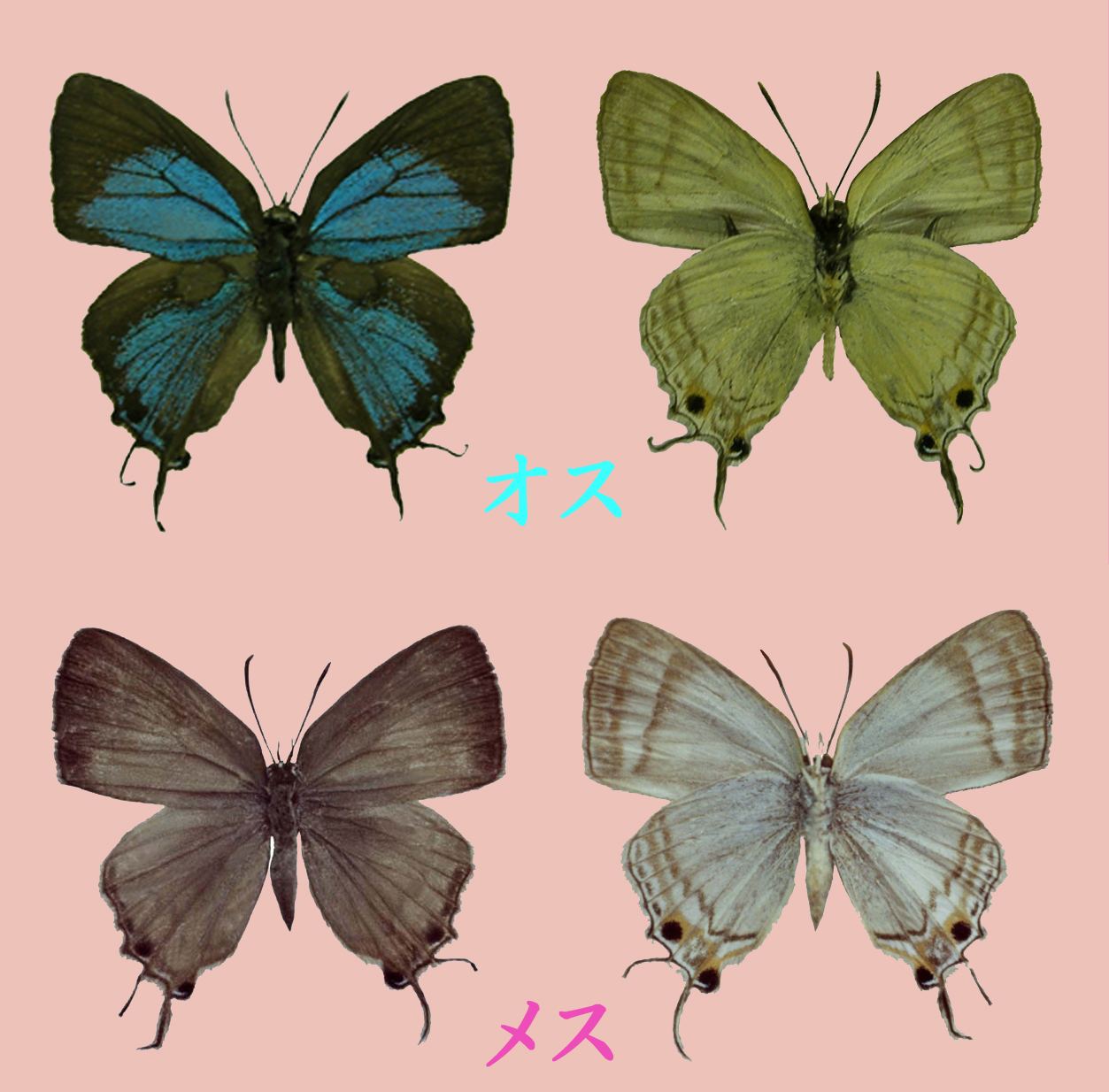 Paruparo mio male and female